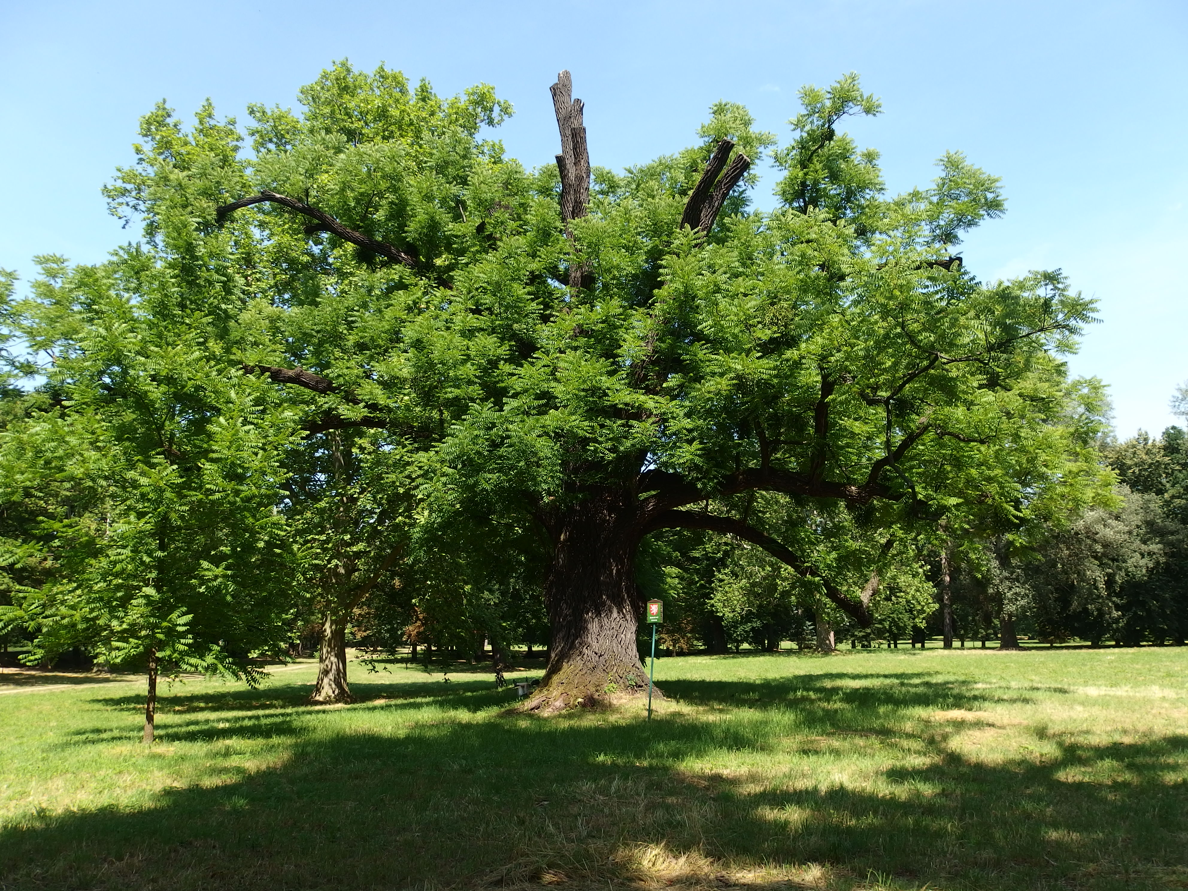 Kvasice, Kroměříž District, Czech Republic.